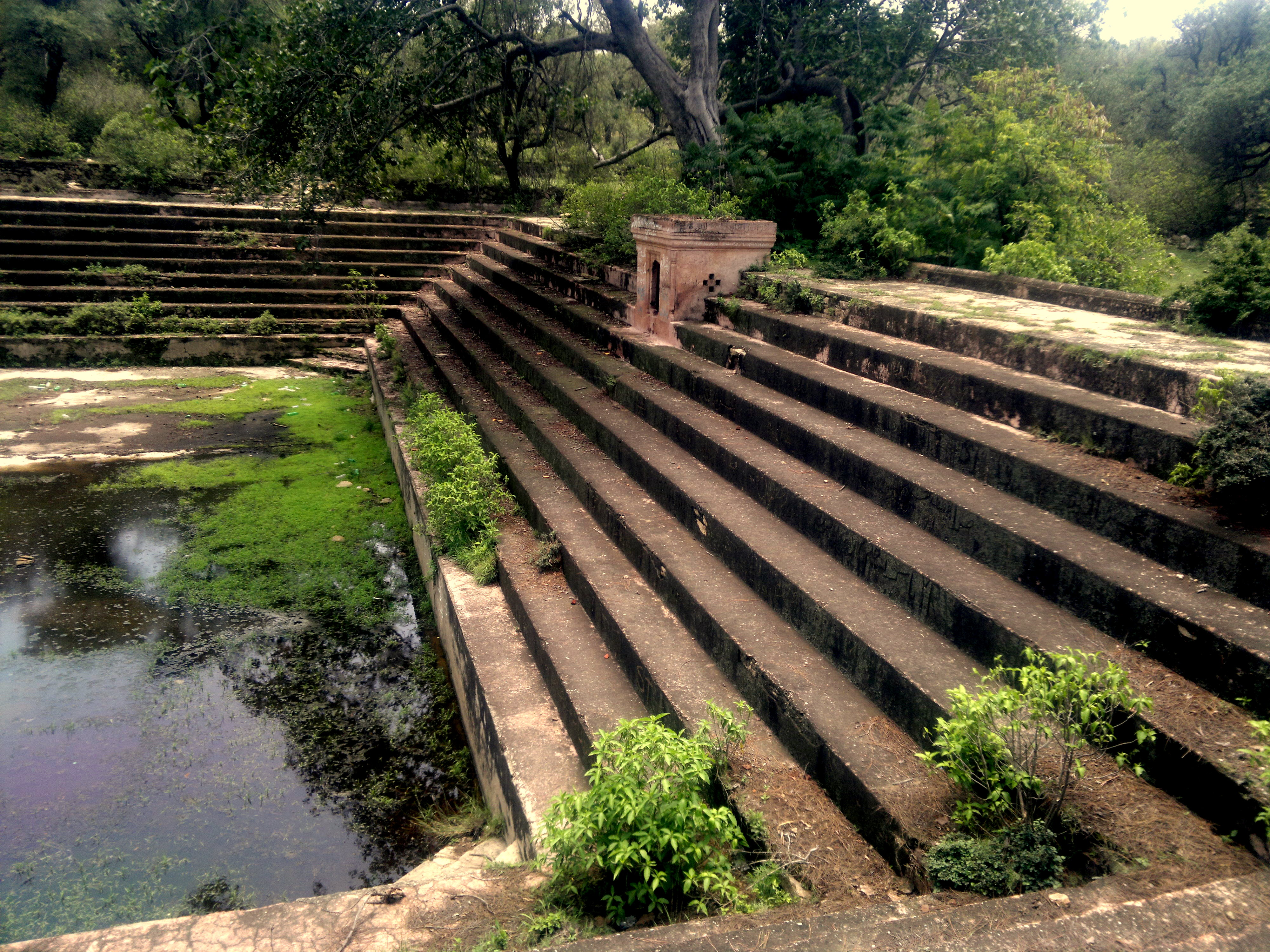 Hindu Temples This is a photo of a monument in Pakistan identified as the PB-U-25